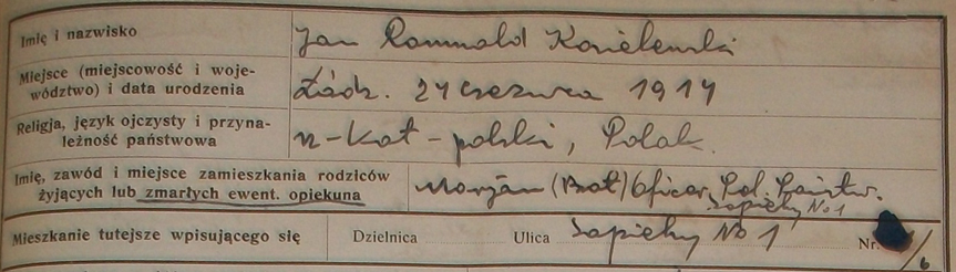 Handwritten document from pre-WWII Lvov with Jan [Kozielewski] Karski's date of birth as June 24, 1914